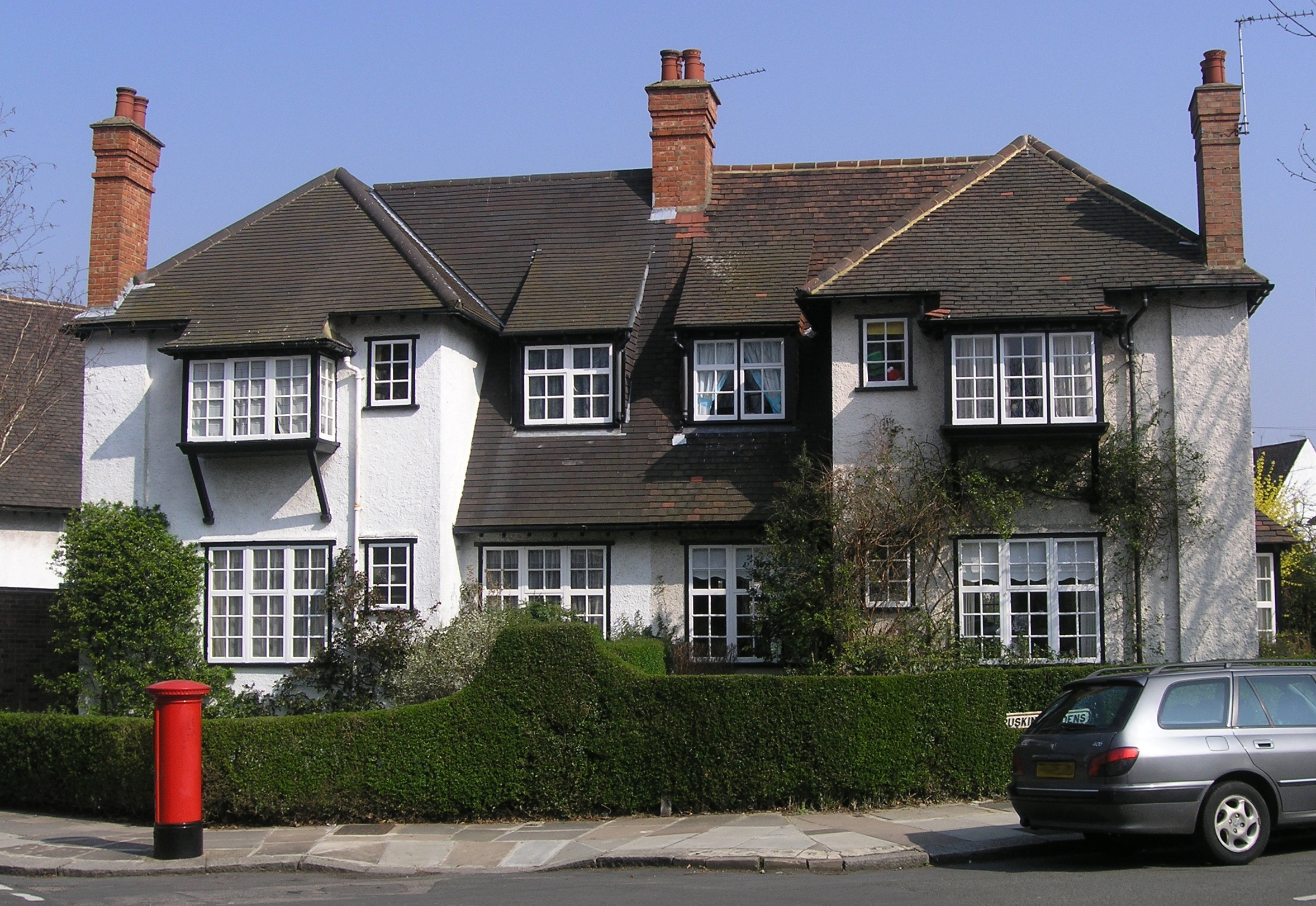 Ludlow Road in Brentham Garden Suburb - pioneer garden suburb and first copartnership garden suburb, layout designed by Unwin & Parker